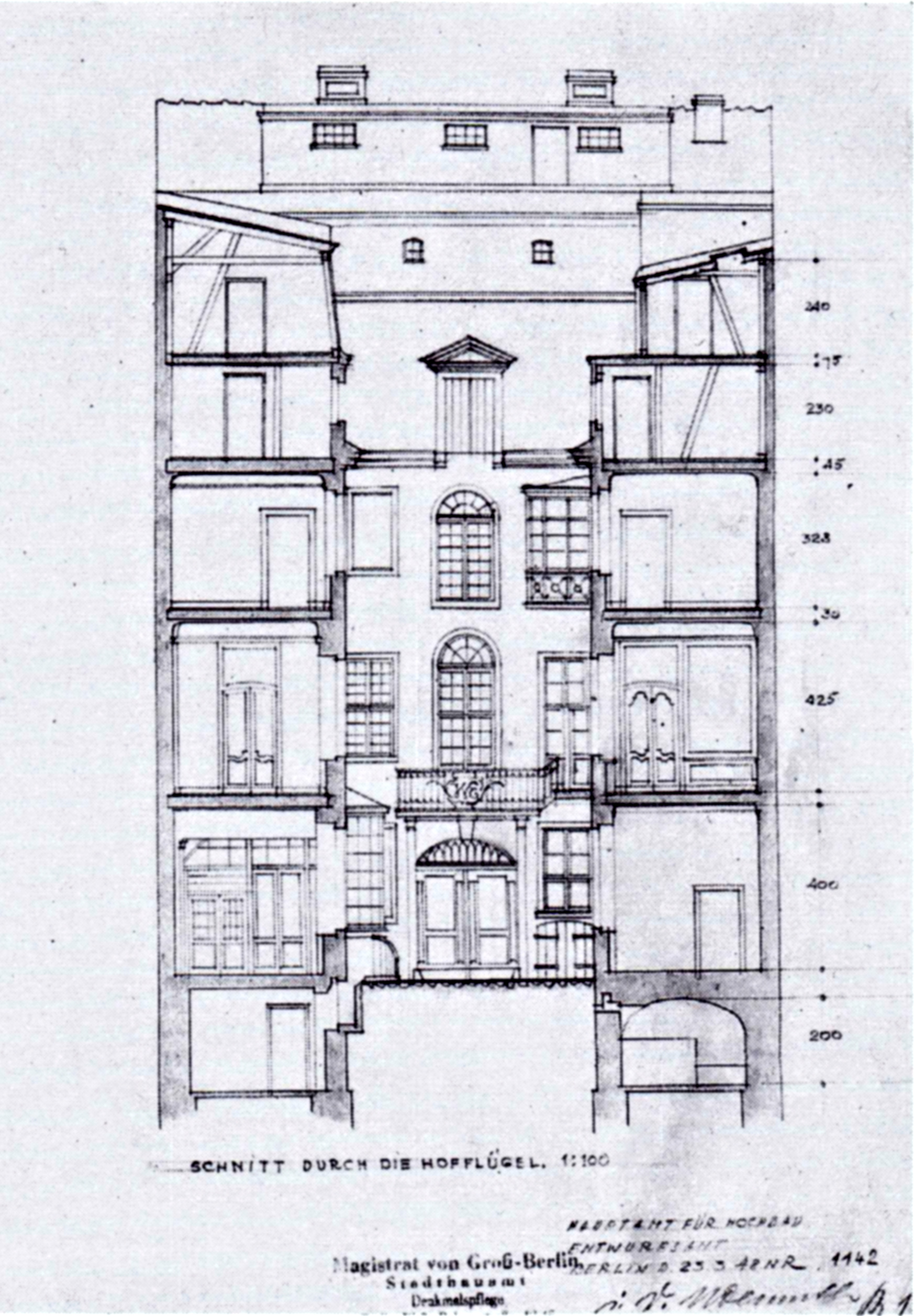 Cross-section through the side wings of the original Ermeler house at Breite Straße 11 before demolition and recontruction at Märkisches Ufer Nr. 10